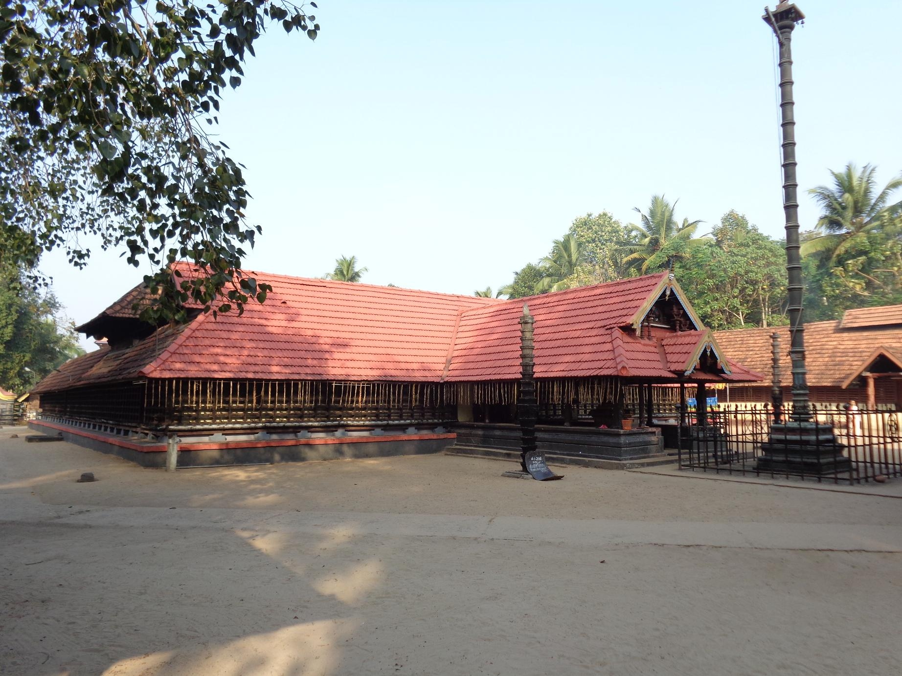 pathiyoor devi temple, mavelikara